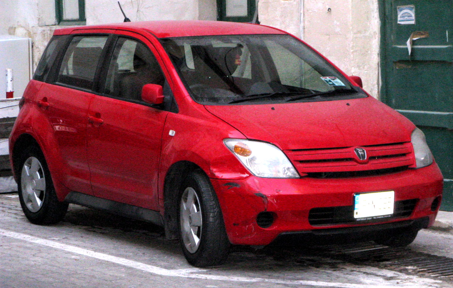 2005 Toyota Ist in Valletta, Malta